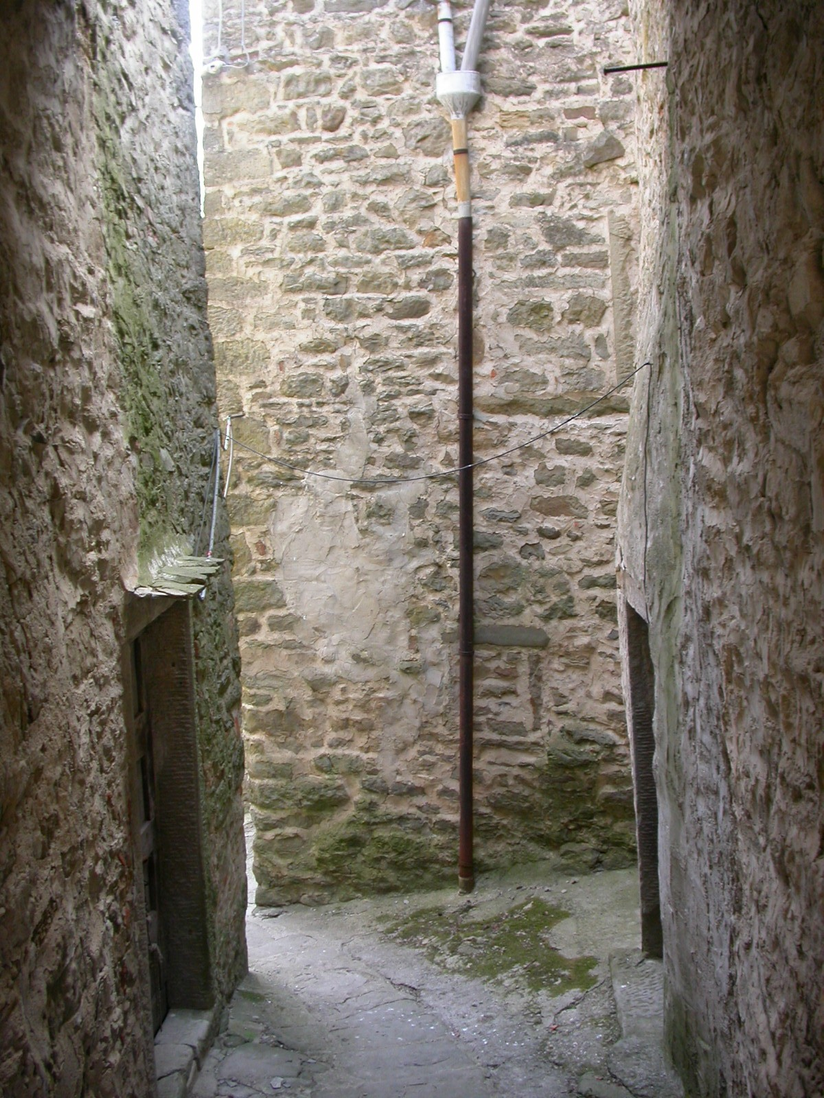 Faeto borghetto